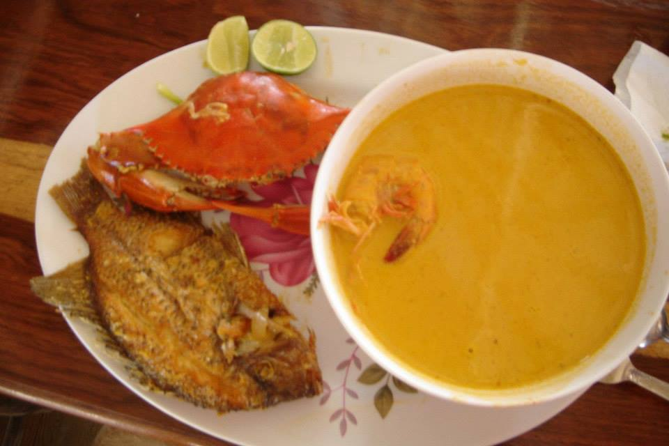 Plato típico